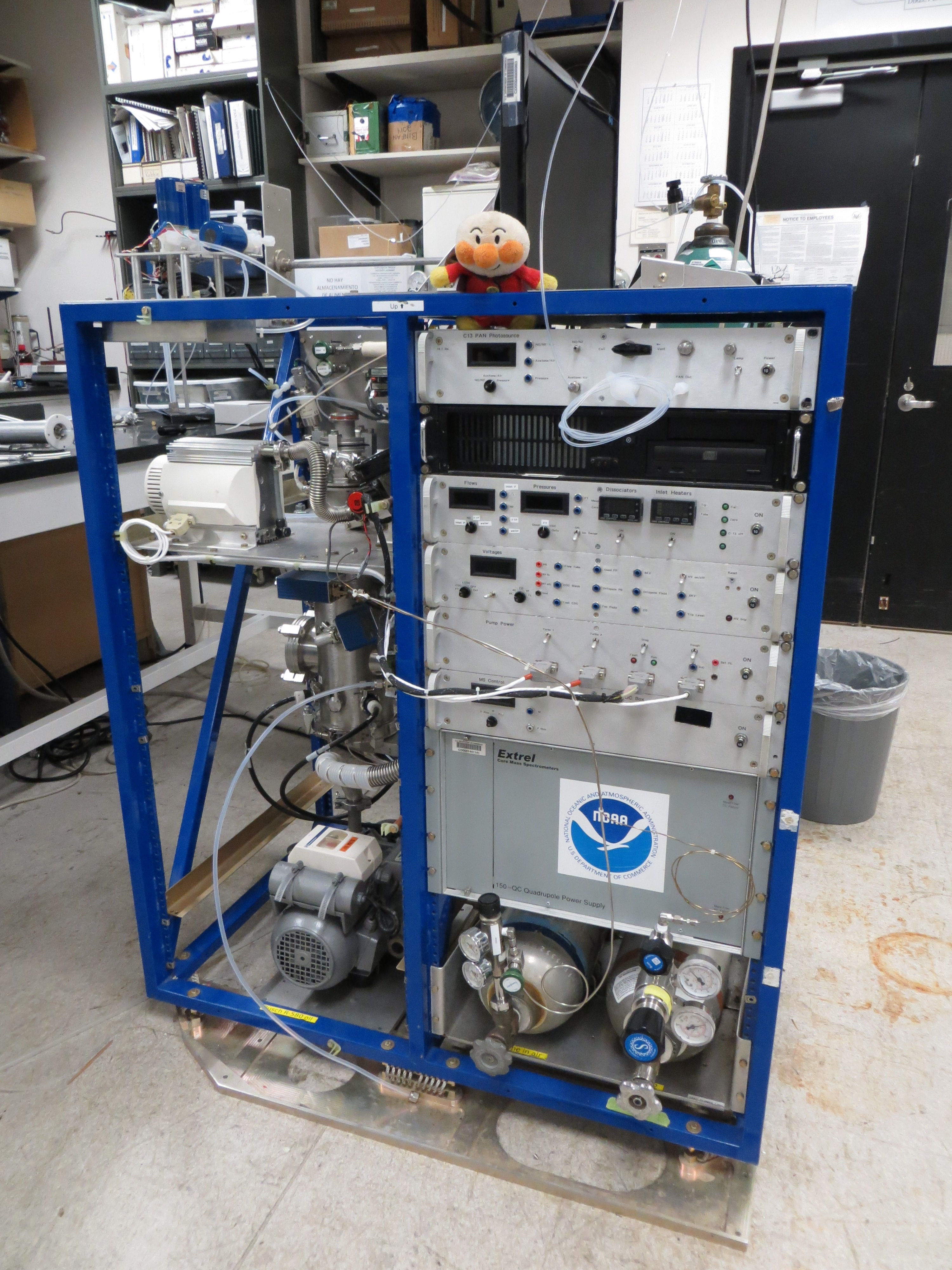 PAN CIMS (peroxynitrate chemical ionization mass spectrometer)